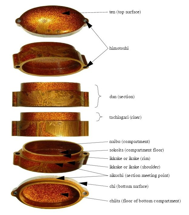 This exploded view of an inro shows the names of the major features, according to Raymond Bushell in his book "The Inro Handbook."